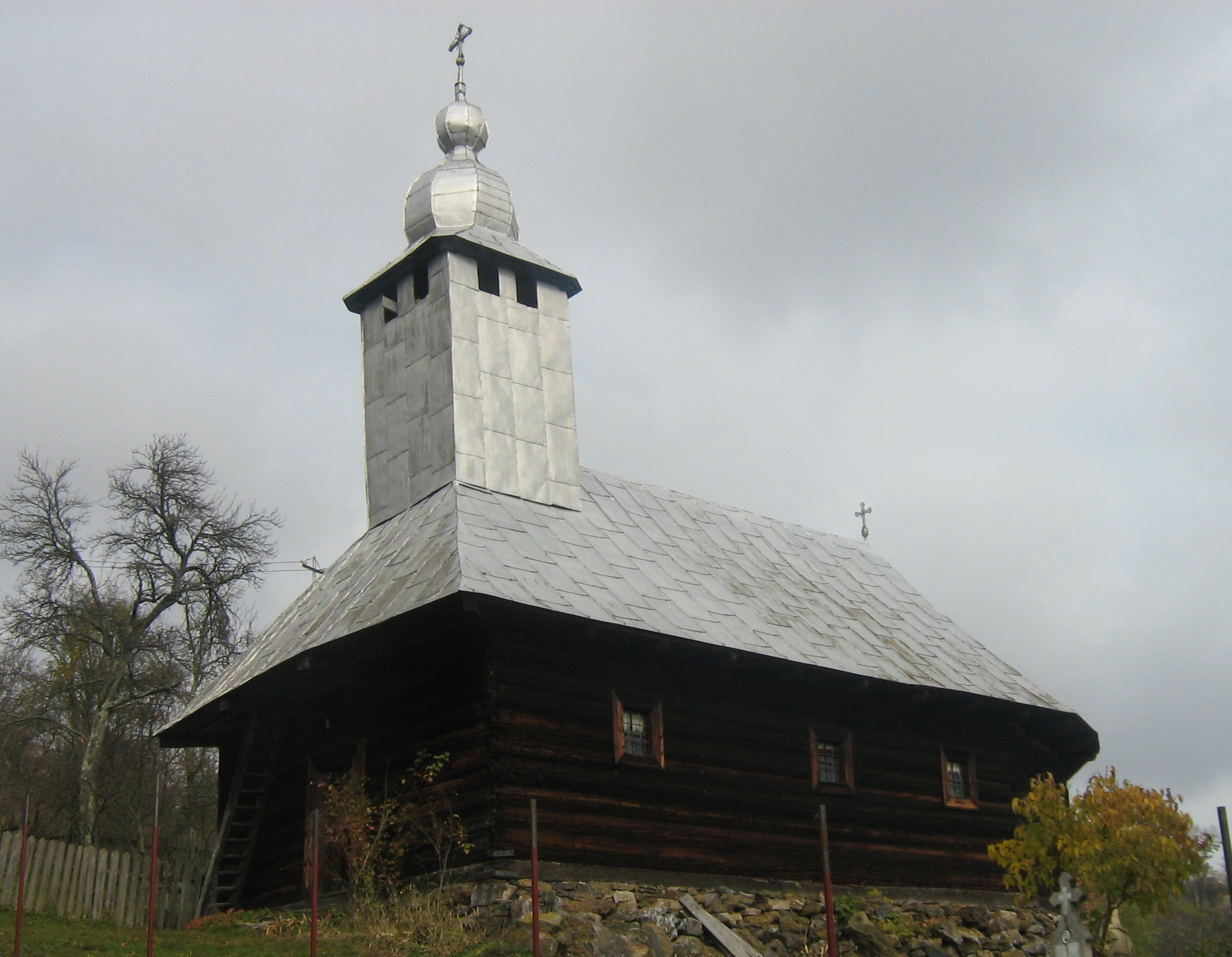 wooden Orthodox church in Bătrâna village, in the Poiana Ruscă mountains